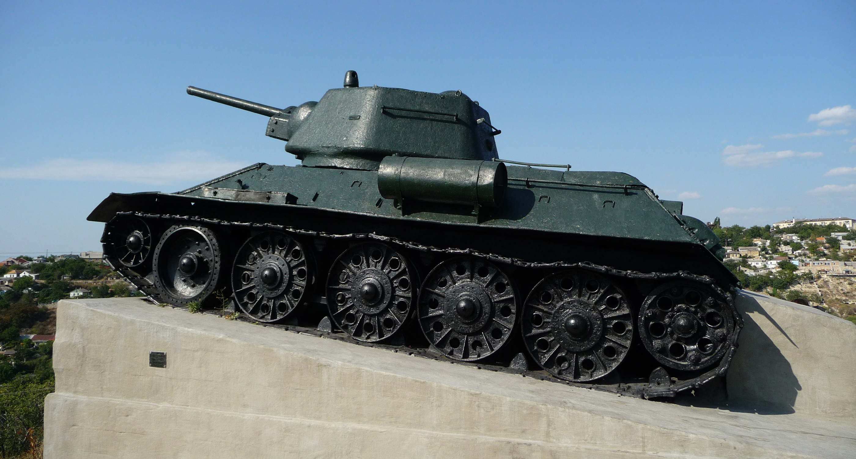 T-34/76 was the Soviet medium tank. This tank was produced in 1943. This monument in Sevastopol is established in memory of soldiers of 85th Guards tank regiment, victims on May, 5-12th, 1944 at city liberating. The big wheels are produced at different factories. This non-standard complete set grows out of repairs in field conditions. 1st wheel - early production (1940). 2nd, 3rd, 5th wheels are produced at the Ural factory. 4th wheel is produced in Stalingrad factory. This tank has a big hole in the bottom front part (a battle damage).